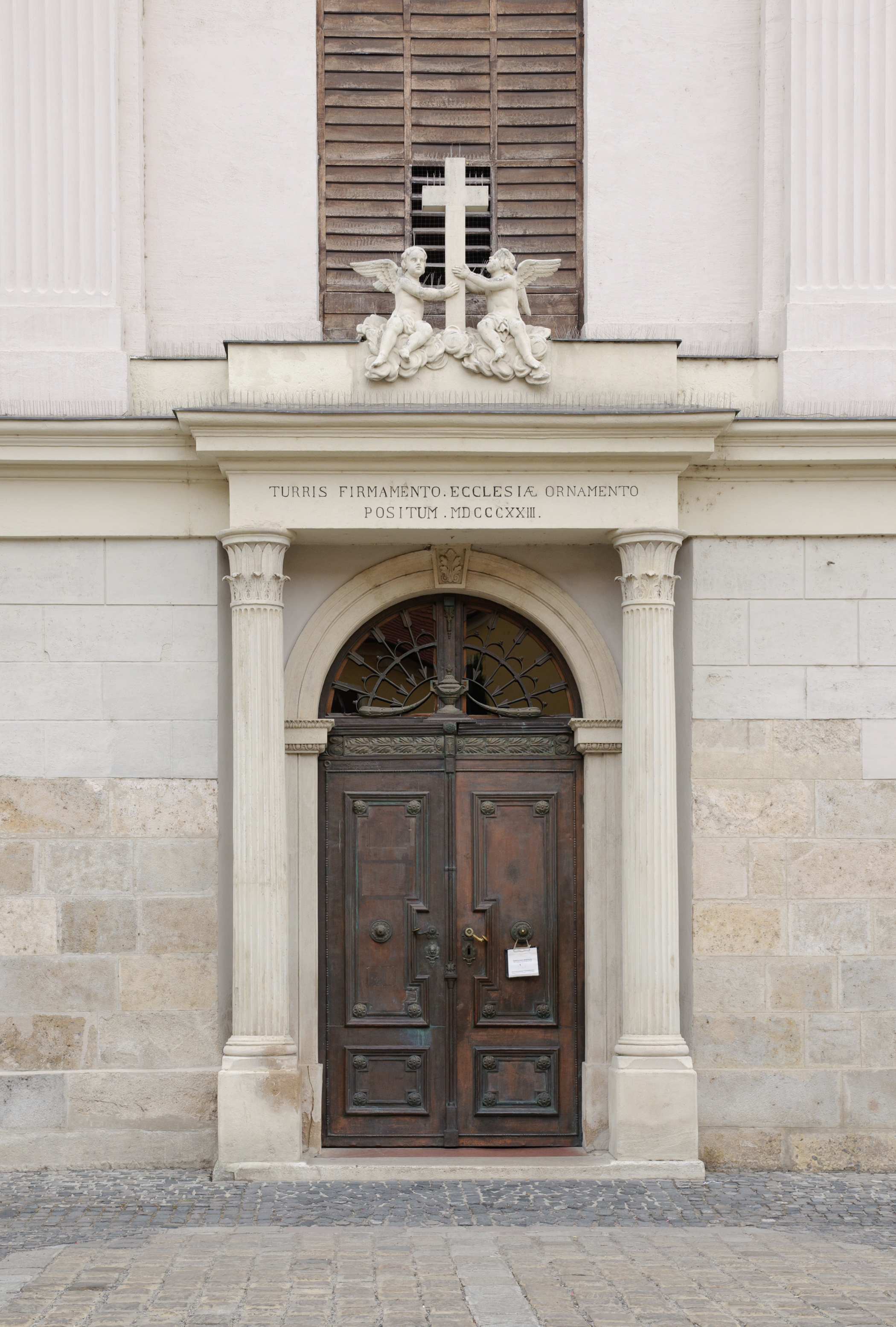 The main gate of Basilica Minor in Győr, Hungary.